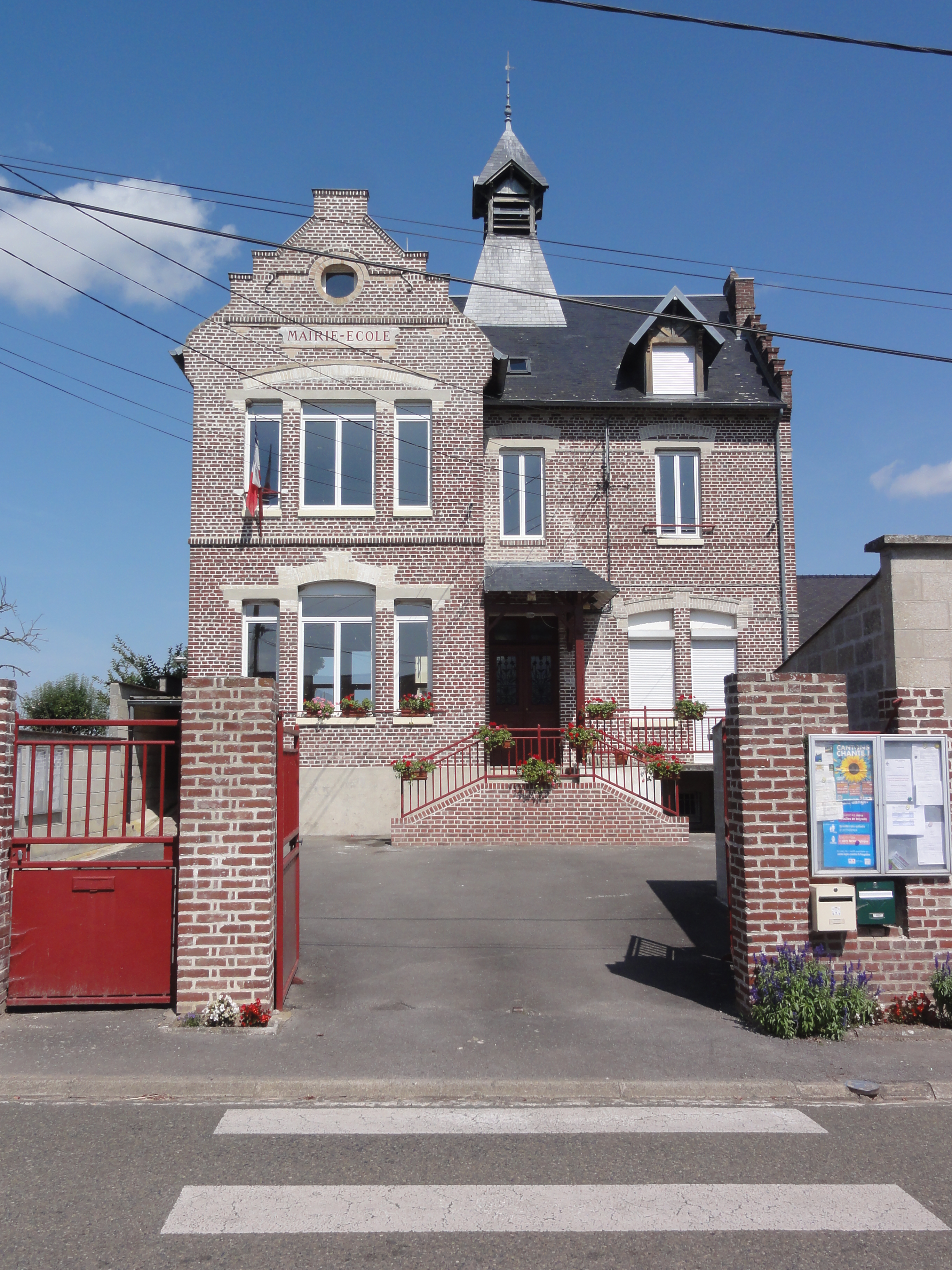 Guivry (Aisne) mairie-école